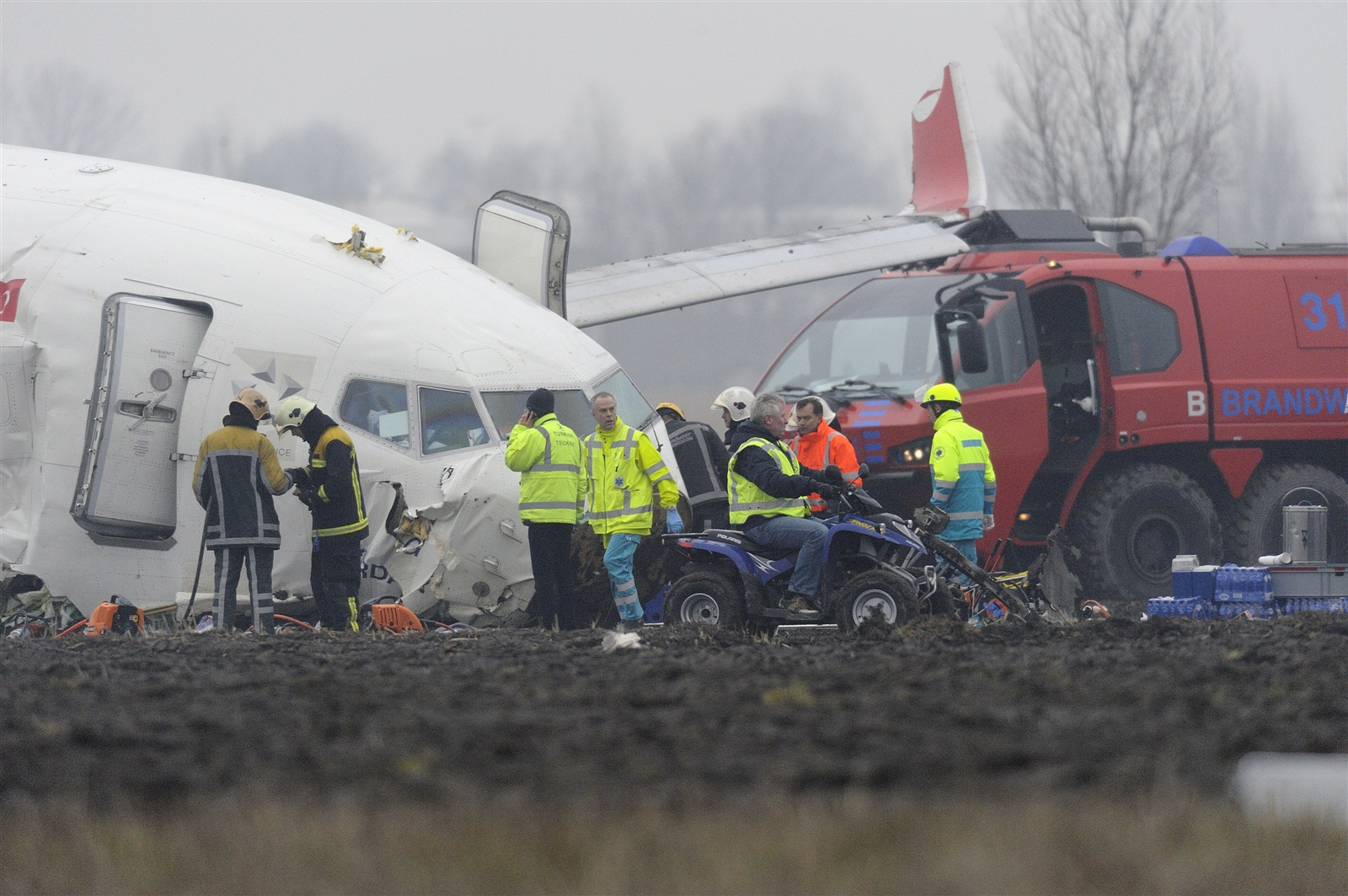 Crash site of Turkish Airlines flight TK 1951 at Schiphol, Amsterdam, The Netherlands. February 25, 2009; Copyright Fred Vloo / RNW